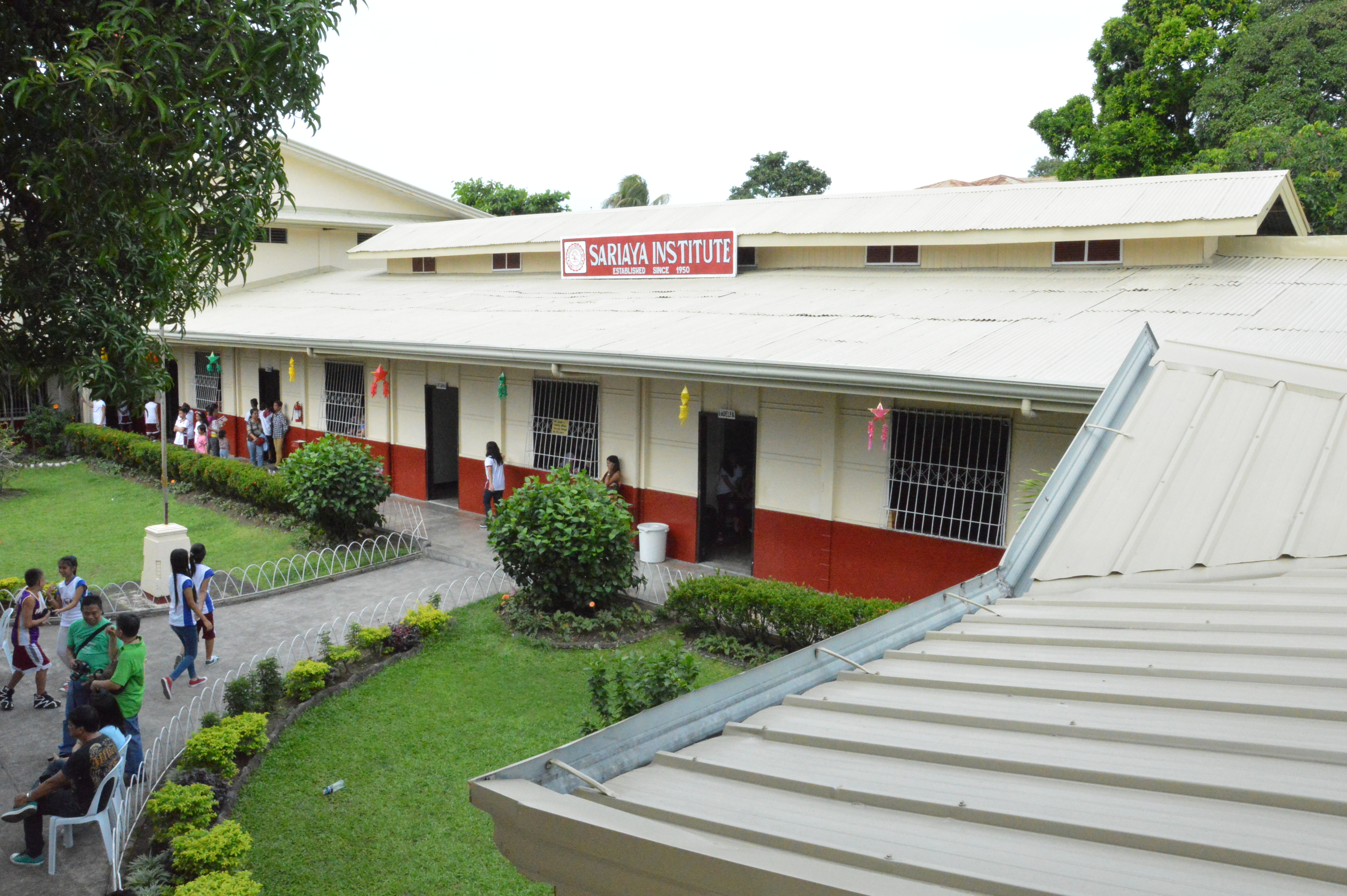 Courtyard-facing facade of the main building of Sariaya Institute